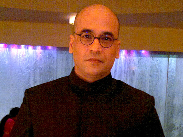 Mohan Kapoor at Saurabh Vanzara-Shabnam Syed wedding reception